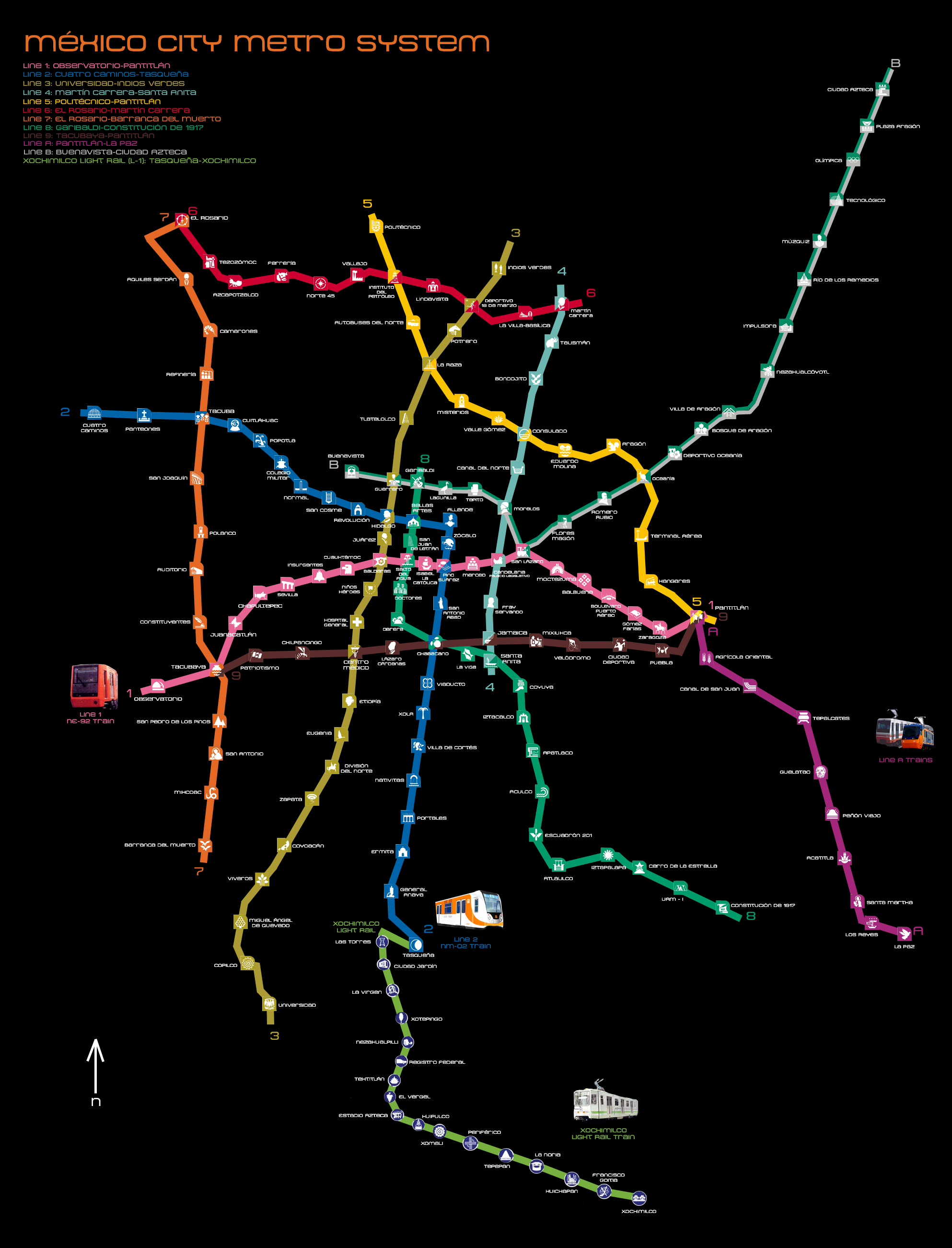 Mexico City Metro map. Includes Xochimilco Light Rail line.